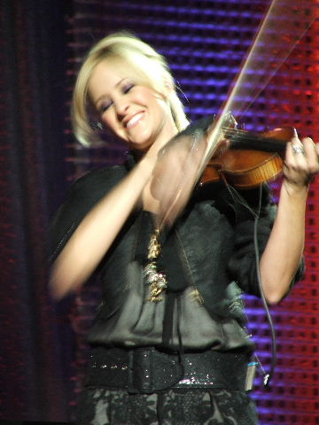 Martie Maguire of the Dixie Chicks in Austin, TX. Photo - Ron Baker.